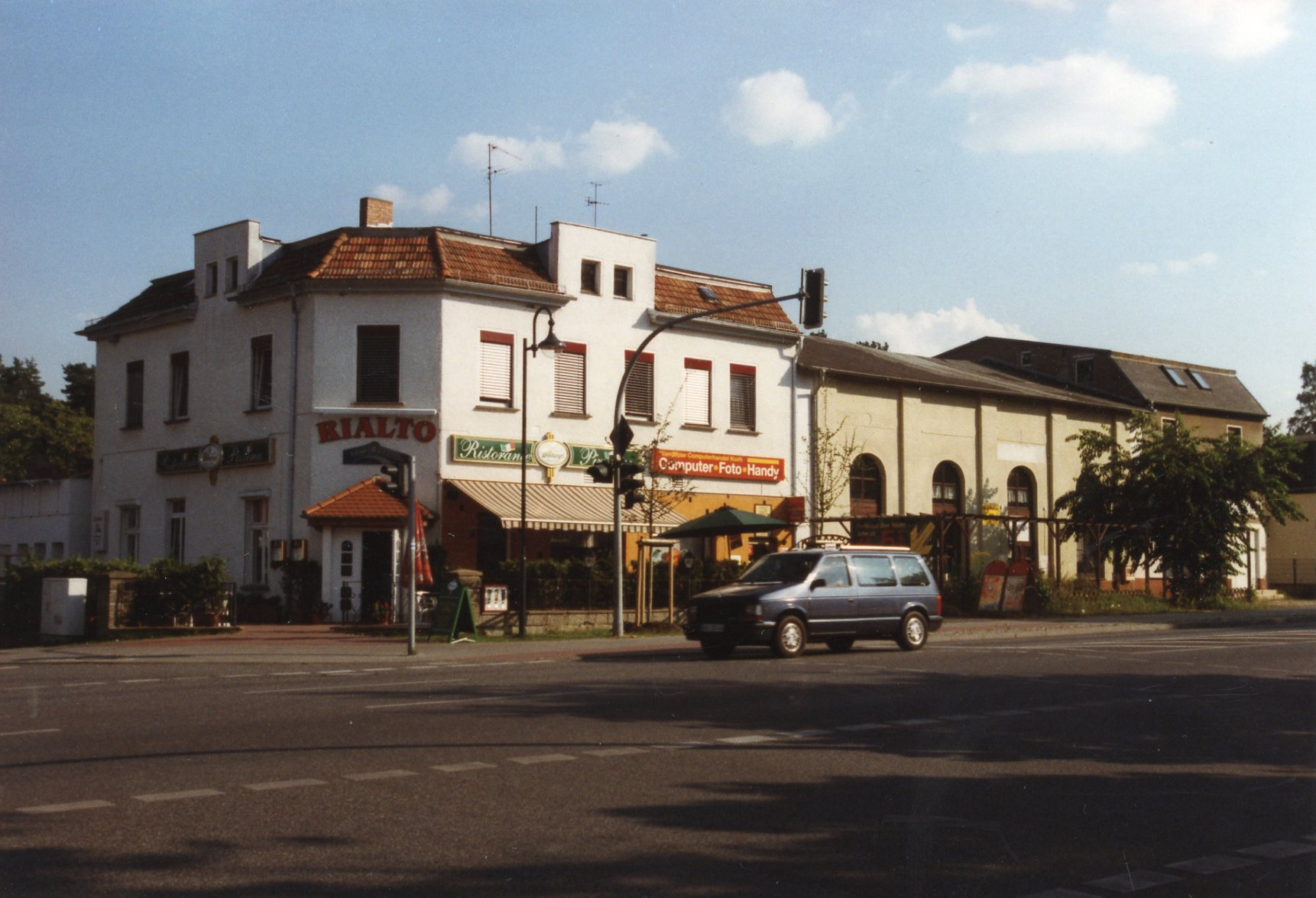 Former theater/casino (Bogenfenster) and restaurant in Wandlitz (Ort)